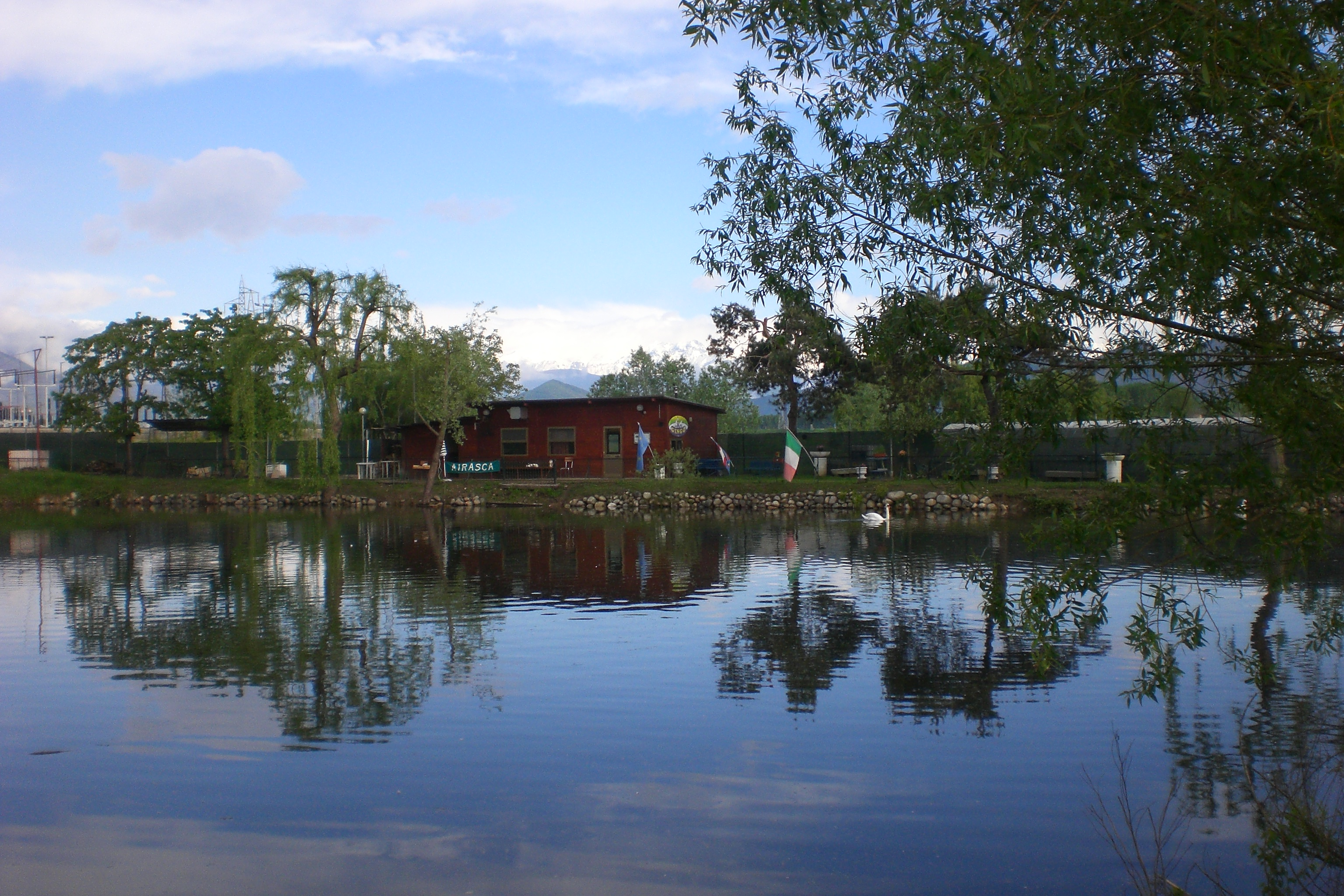 the Gingo pond, Airasca